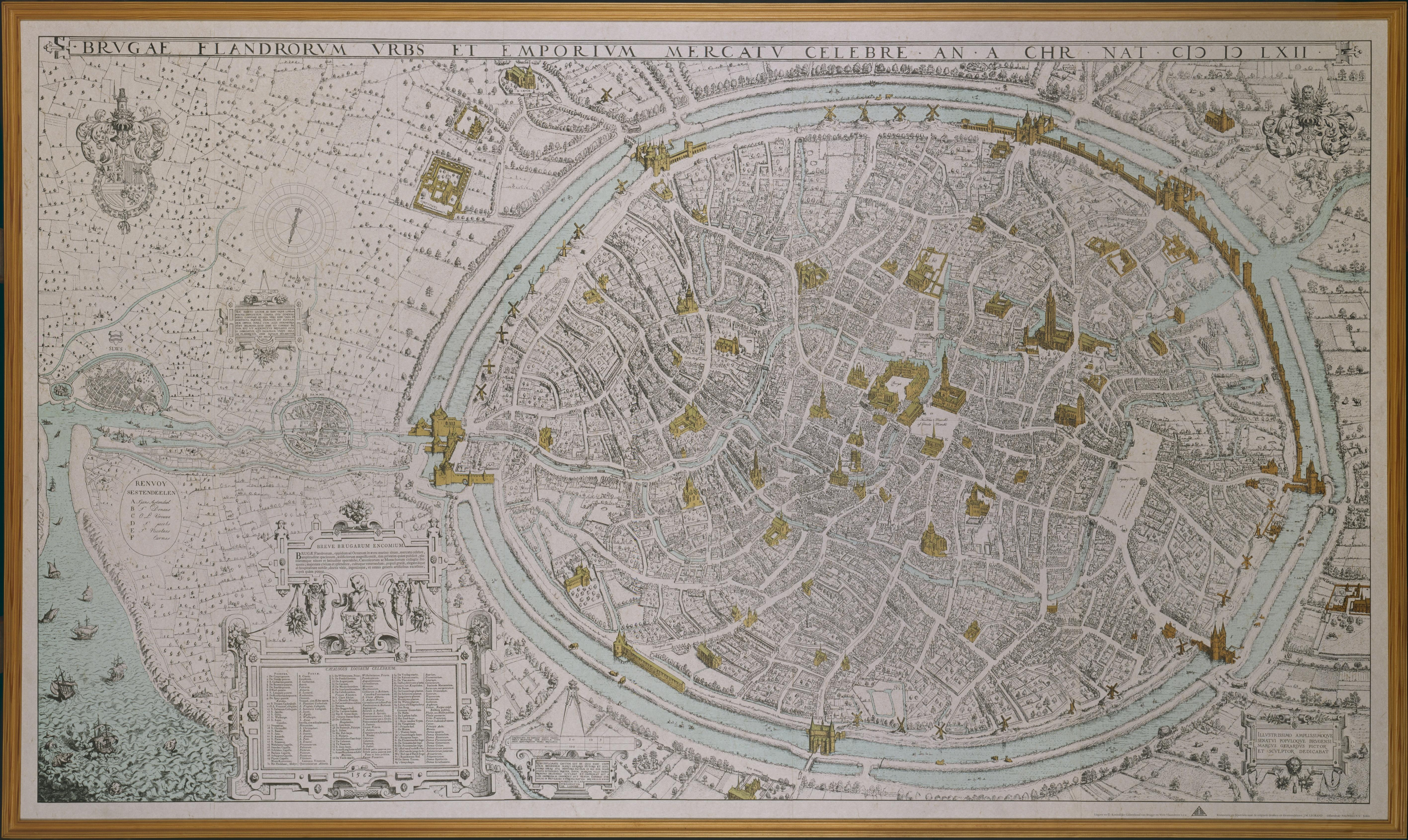 Old map of Bruges by Marcus Gheeraerts de oude in 1562